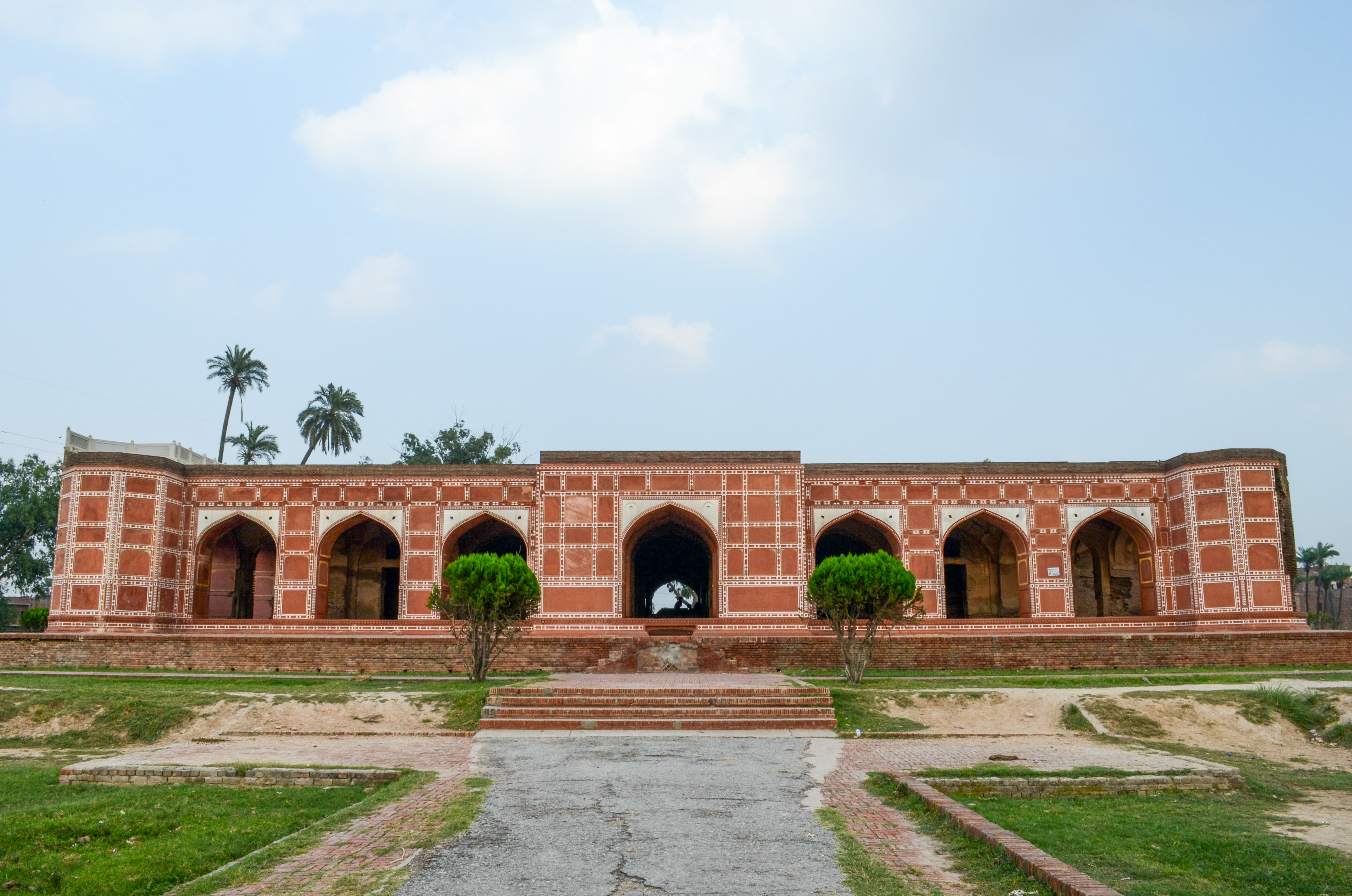 Tomb of Nur Jahan This is a photo of a monument in Pakistan identified as the PB-91